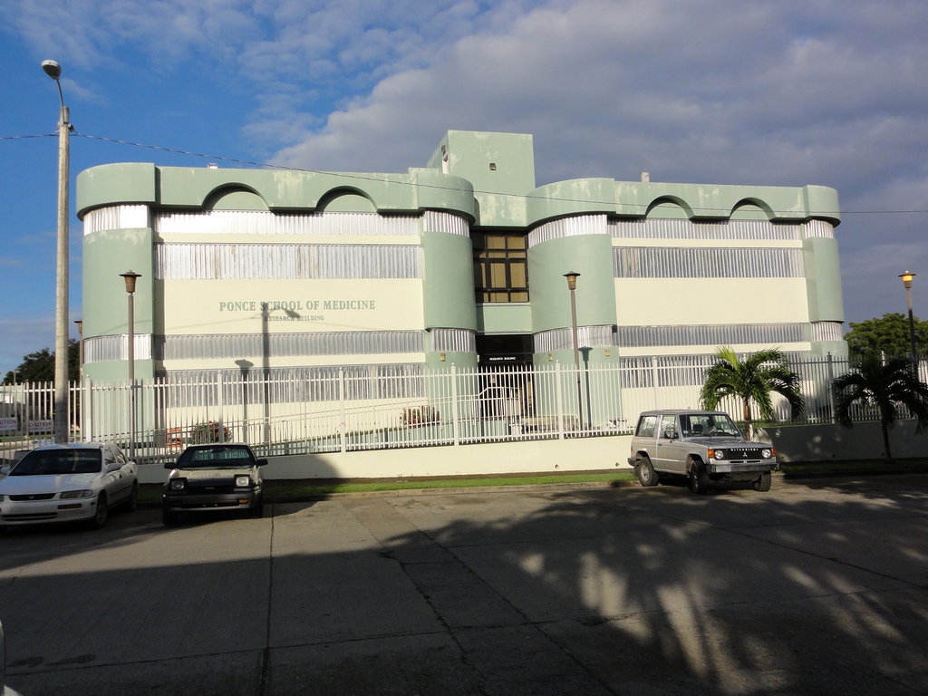 Research building at Ponce School of Medicine in Barrio Playa in Ponce, Puerto Rico